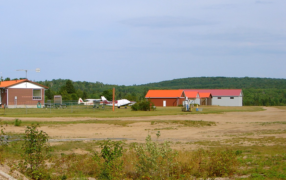 South River/Sundridge Airport, renamed in 2013 to Almaguin Highlands Air Park, Ontario, Canada